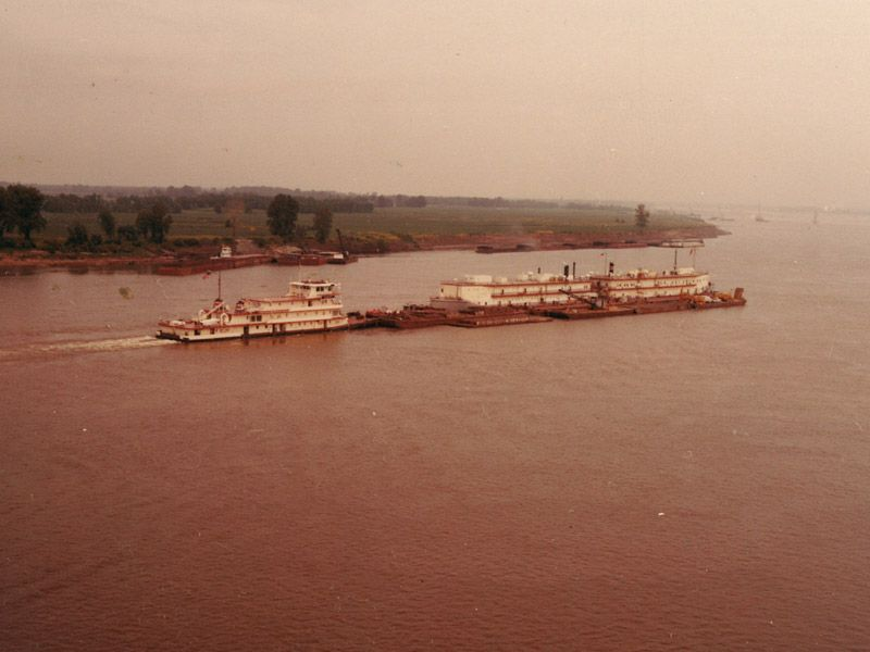 Between 1961 and 1993 M/V Mississippi IV spent much of her time on the Mississippi River as a towboat for the US Army Corps of Engineers, Memphis District. See the Mississippi IV at work along the river towing barges, maneuvering through locks, and work life aboard the vessel. It now houses the Lower Mississippi River Museum in Vicksburg, MS.